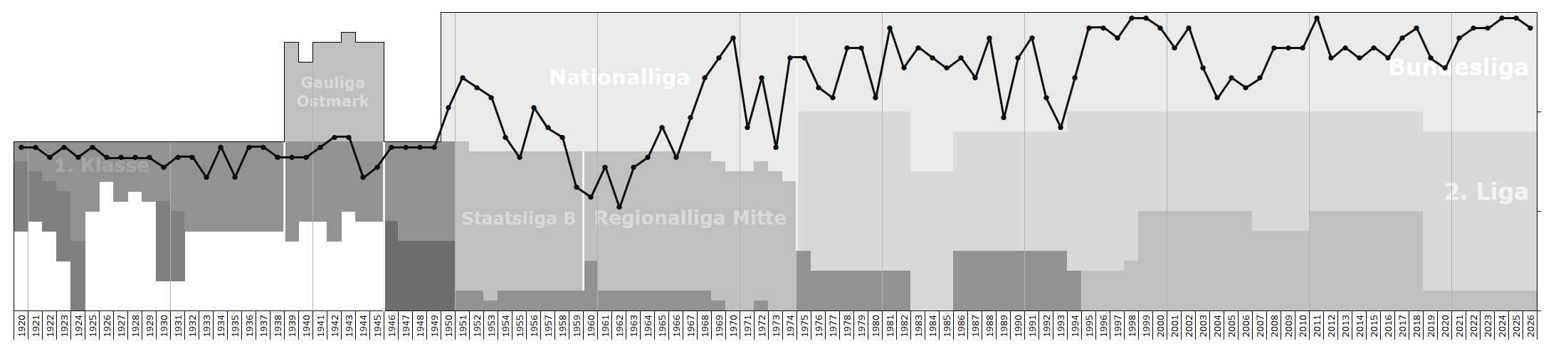 Chart of end-season table positions of Sturm Graz in the Austrian football league system. Data source: RSSSF, , regiowiki.at, stfv.at, wikipedia